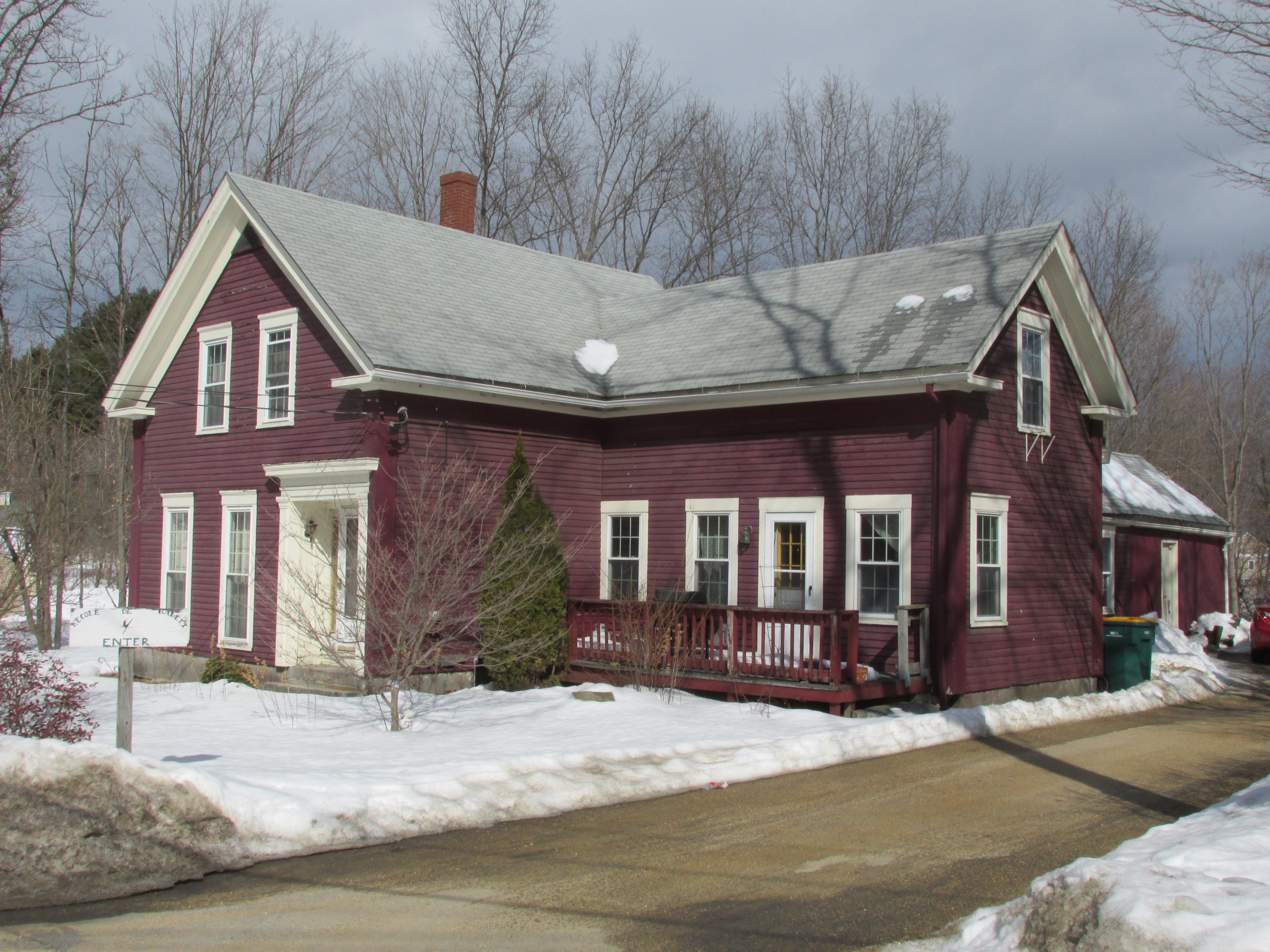 L'Ecole de Ballet, Pingryville Massachusetts